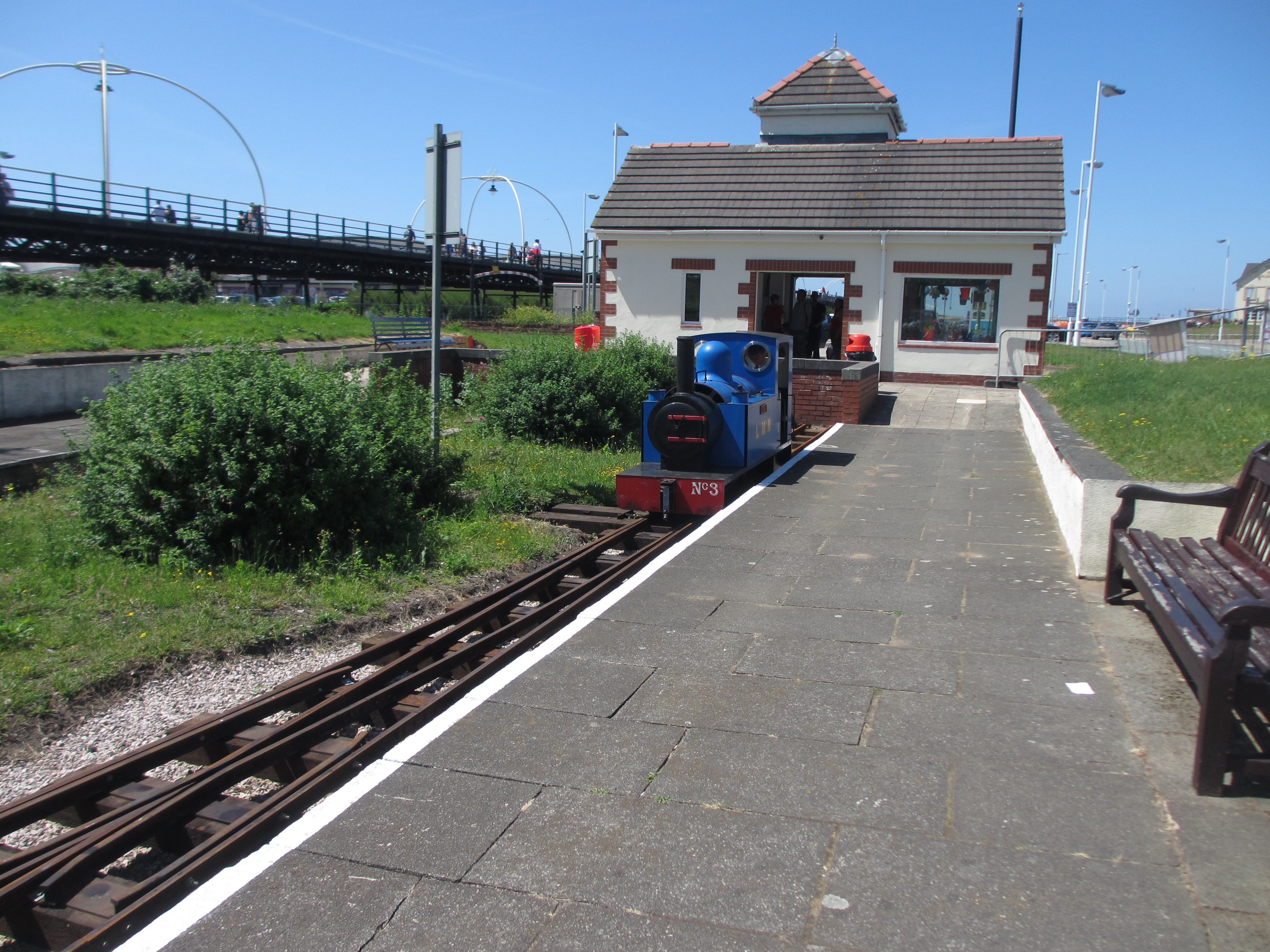 Lakeside Miniature Railway, Southport, England. Locomotive "Jenny"